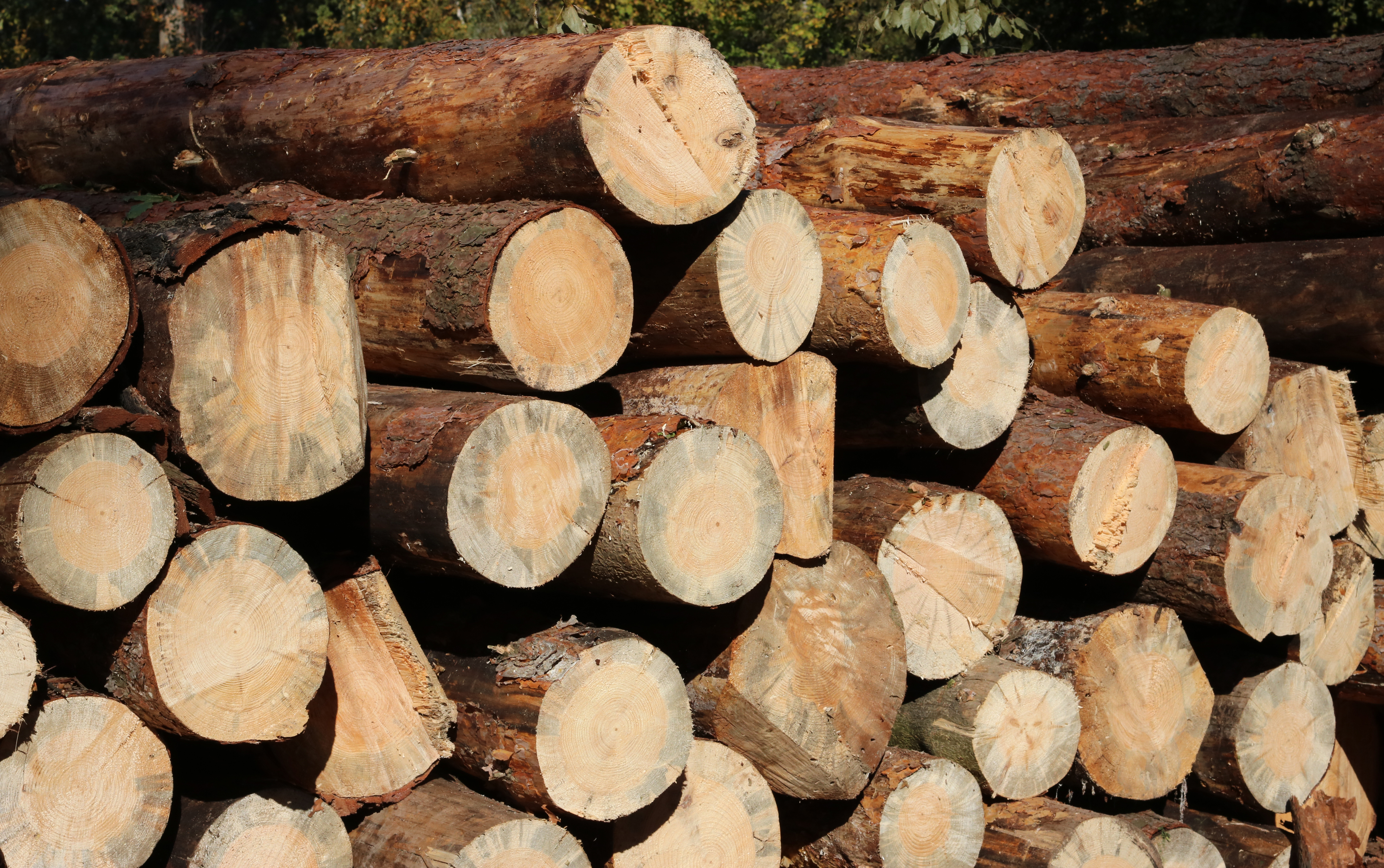 Logs after sanitary cutting of coniferous forest. Vinnytsia district, Ukraine